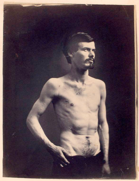 Digital ID: 1150120. United States Sanitary Commission -- Creator. 1861-1872 Notes: Image identical to no. 69, Box 1082; retouched. Source: United States Sanitary Commission records, 1861-1872, bulk (1861-1865). / Photographs, prints and drawings / Photographs and drawings (more info) Repository: The New York Public Library. Manuscripts and Archives Division. See more information about this image and others at NYPL Digital Gallery. Persistent URL: Rights Info: No known copyright restrictions; may be subject to third party rights (for more information, click here)